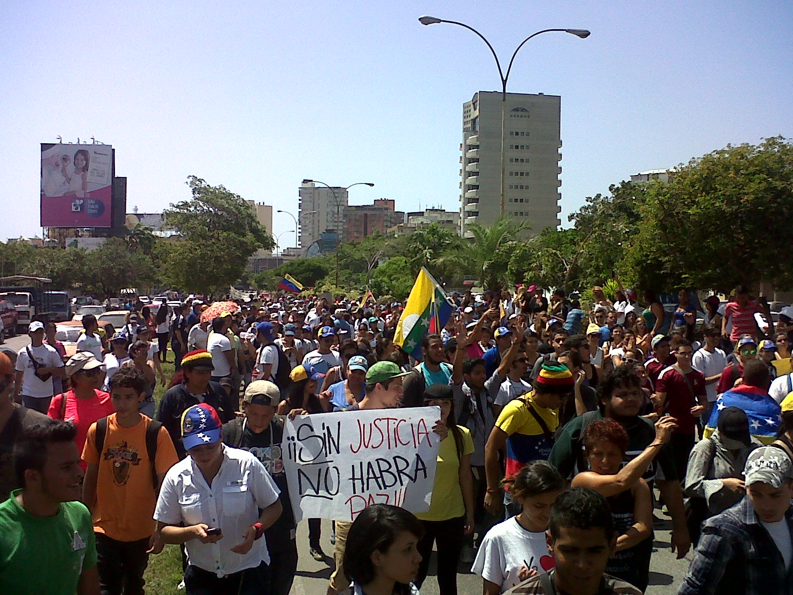 March 12F in Margarita Island